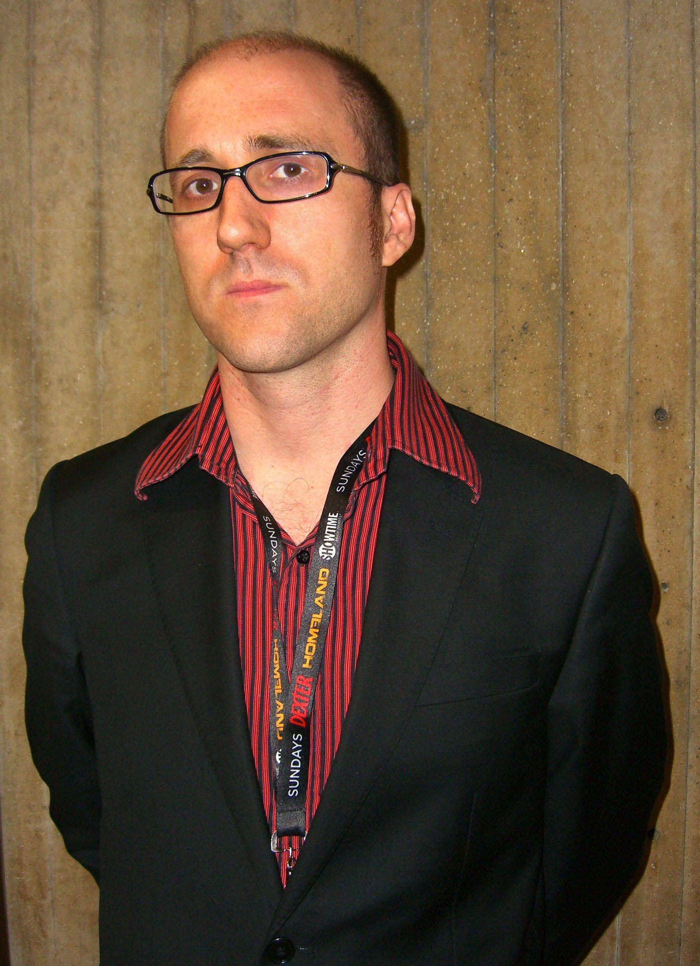 Comics creator Kieron Gillen during an October 16, 2011 appearance at the New York Comic Con in Manhattan. This photo was created by Luigi Novi. It is not in the public domain, and use of this file outside of the licensing terms is a copyright violation.